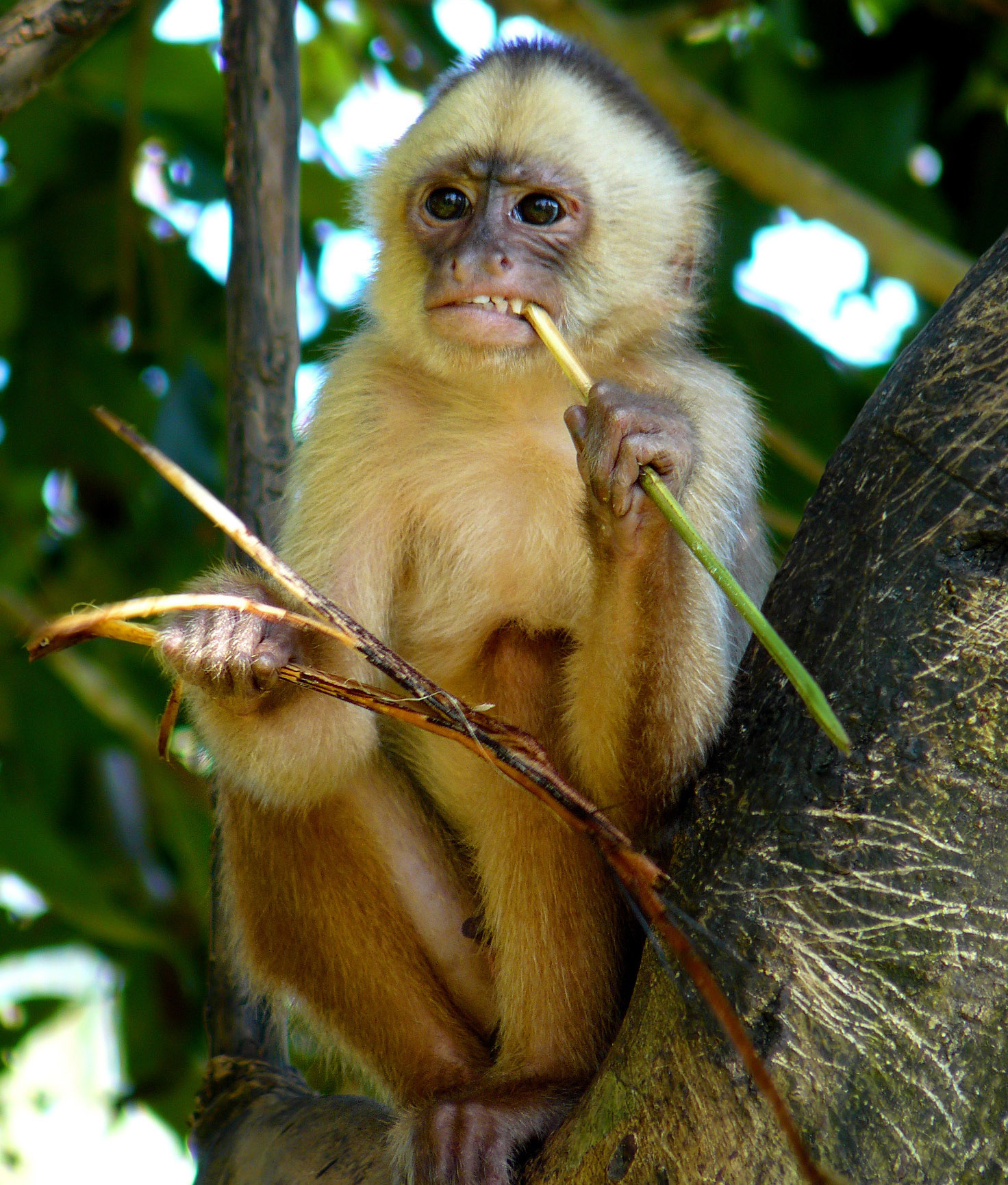 A young female of White-fronted Capuchi Monkey (Cebus albifrons).